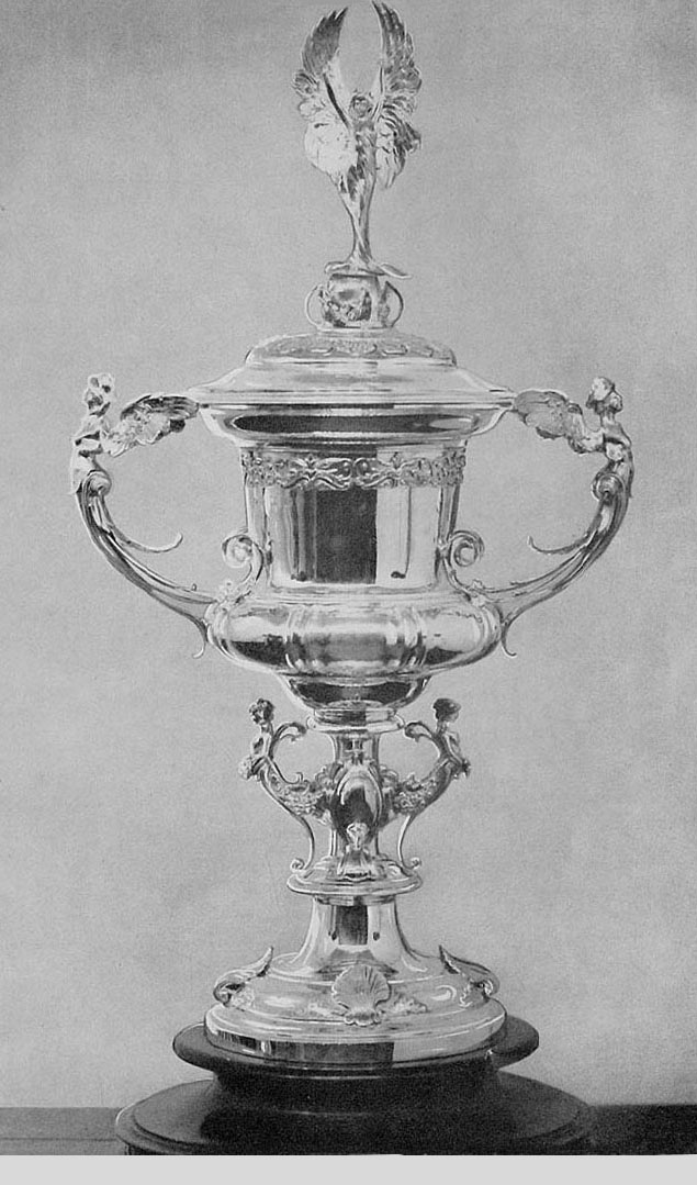 The trophy given to winners of "Copa Adrián C. Escobar" an Argentine tournament contested between 1939 and 1949.